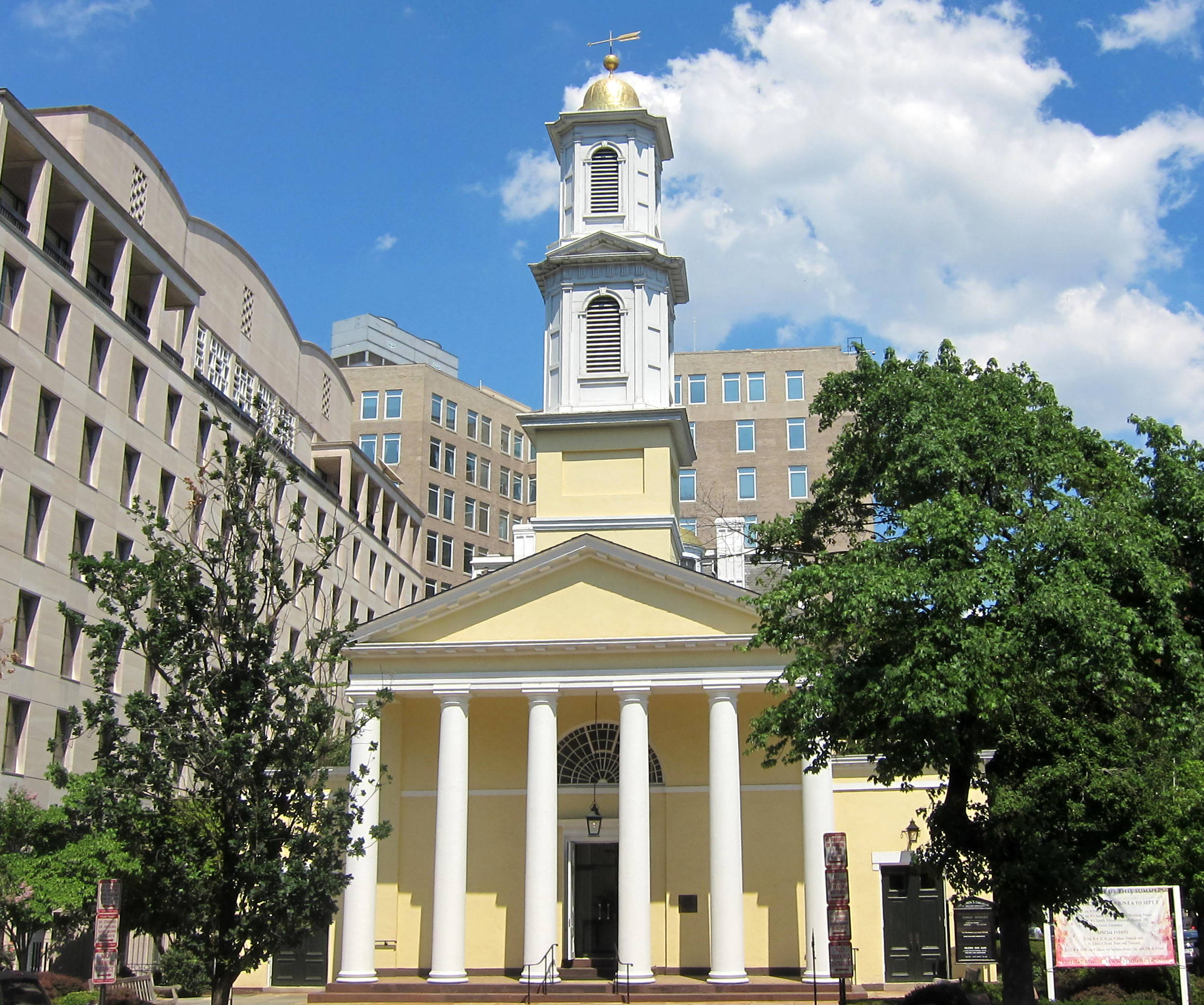 St. John's Episcopal Church (also known as the "Church of the Presidents") located at 1525 H Street, N.W., in downtown Washington, D.C. Built in 1816 to the designs of noted architect Benjamin Henry Latrobe, the federal-style church is designated as a National Historic Landmark. In addition, the building is designated as a contributing property to the Sixteenth Street Historic District and Lafayette Square Historic District.